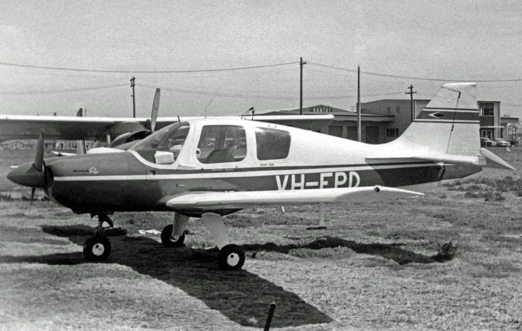 Beagle 121 Pup 2 VH-EPD at Sydney (Mascot) Airport